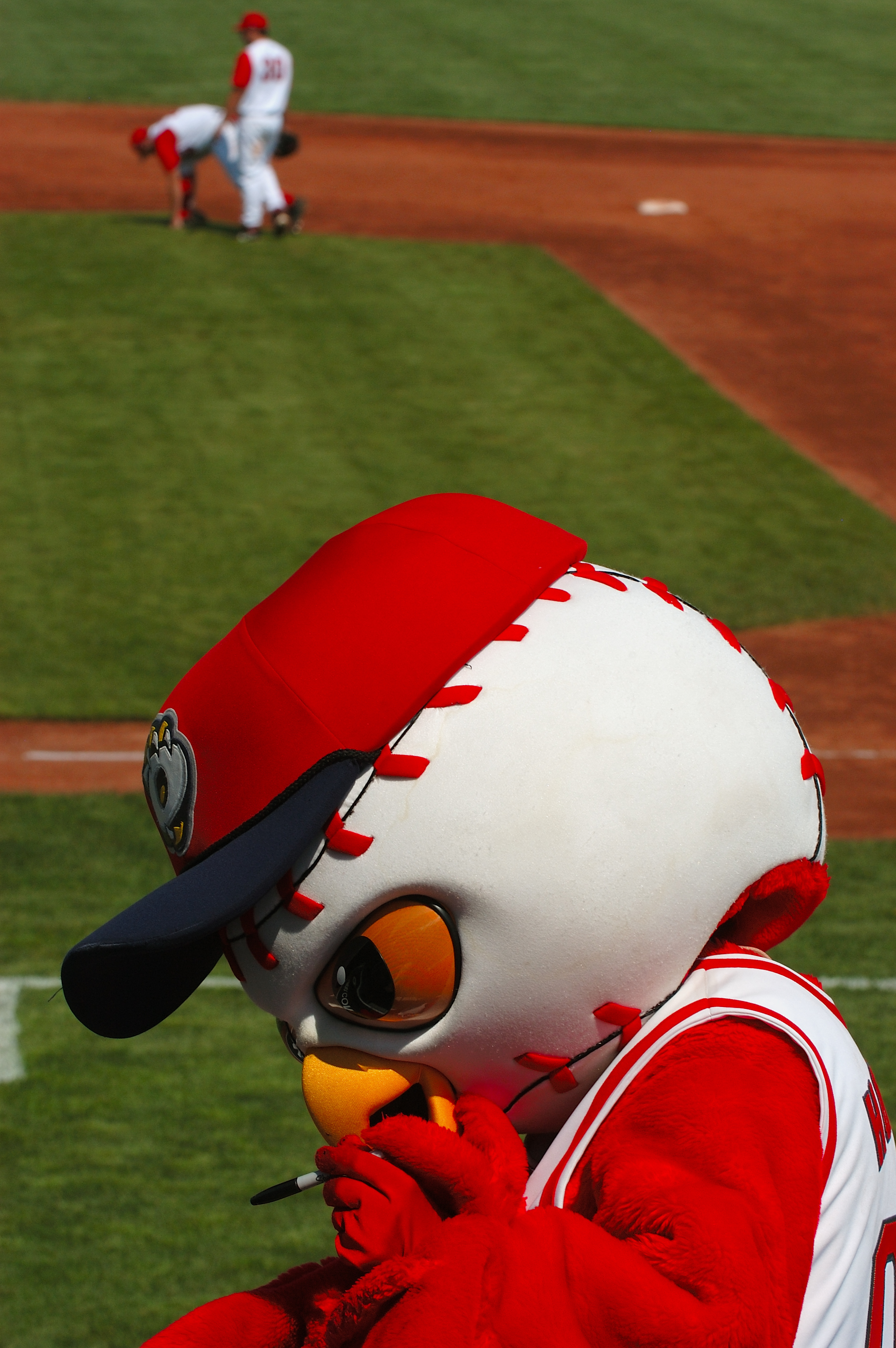 Hootz, the mascot of the Orem Owlz franchise in the Pioneer League. Photo taken during game with Helena Brewers on July 16, 2006.